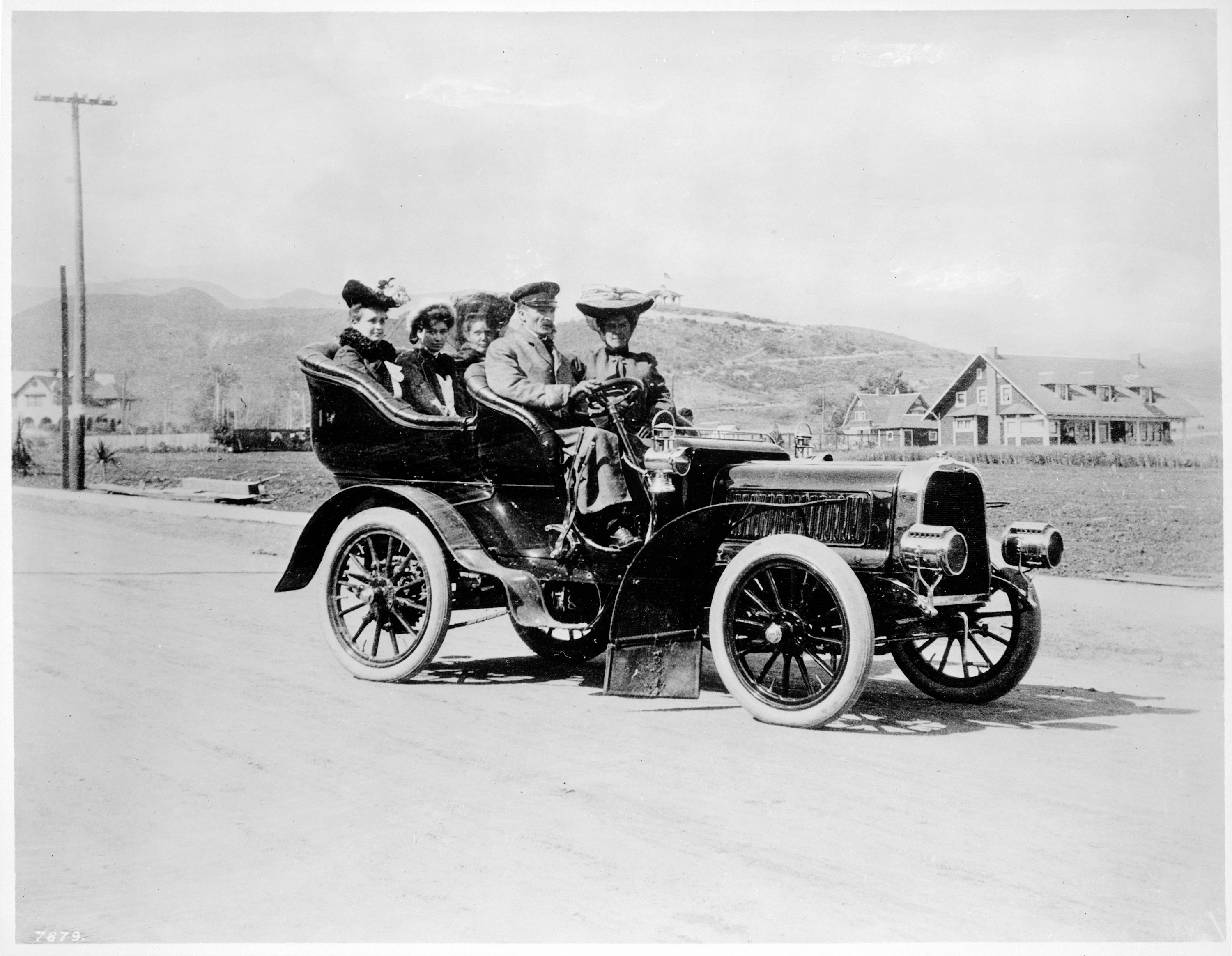 Motoring on Hollywood Blvd., West of Highland. Portrait of five people seated in a car with houses in background. Hollywood (Los Angeles, Calif.)